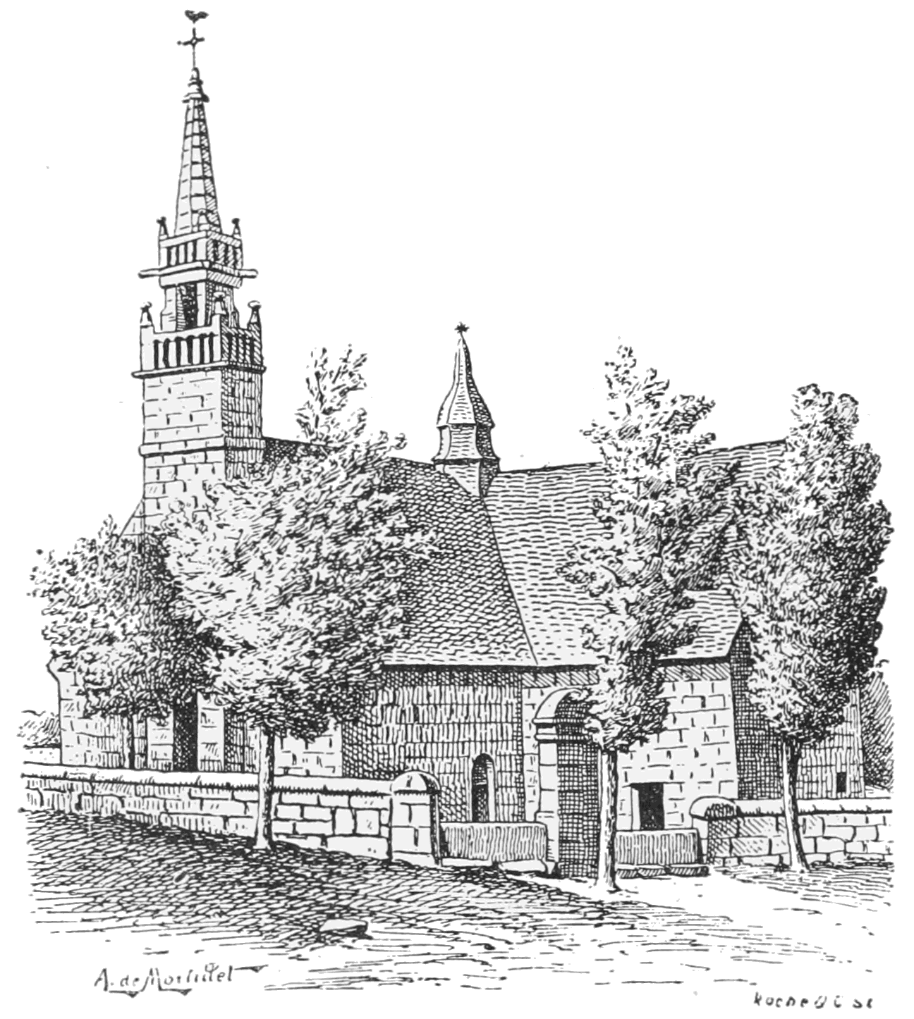 Church of the seven saints